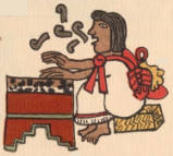 This is a huehuetl (a type of Aztec drum) from page 060 of the Codex Magliabecchi Nāhuatl: Huēhuētl